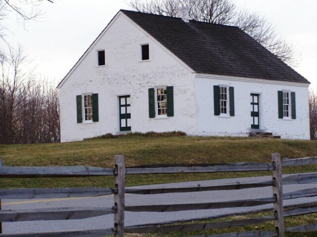 Dunker Church, Sharpsburg, Maryland (Antietam Battlefield)